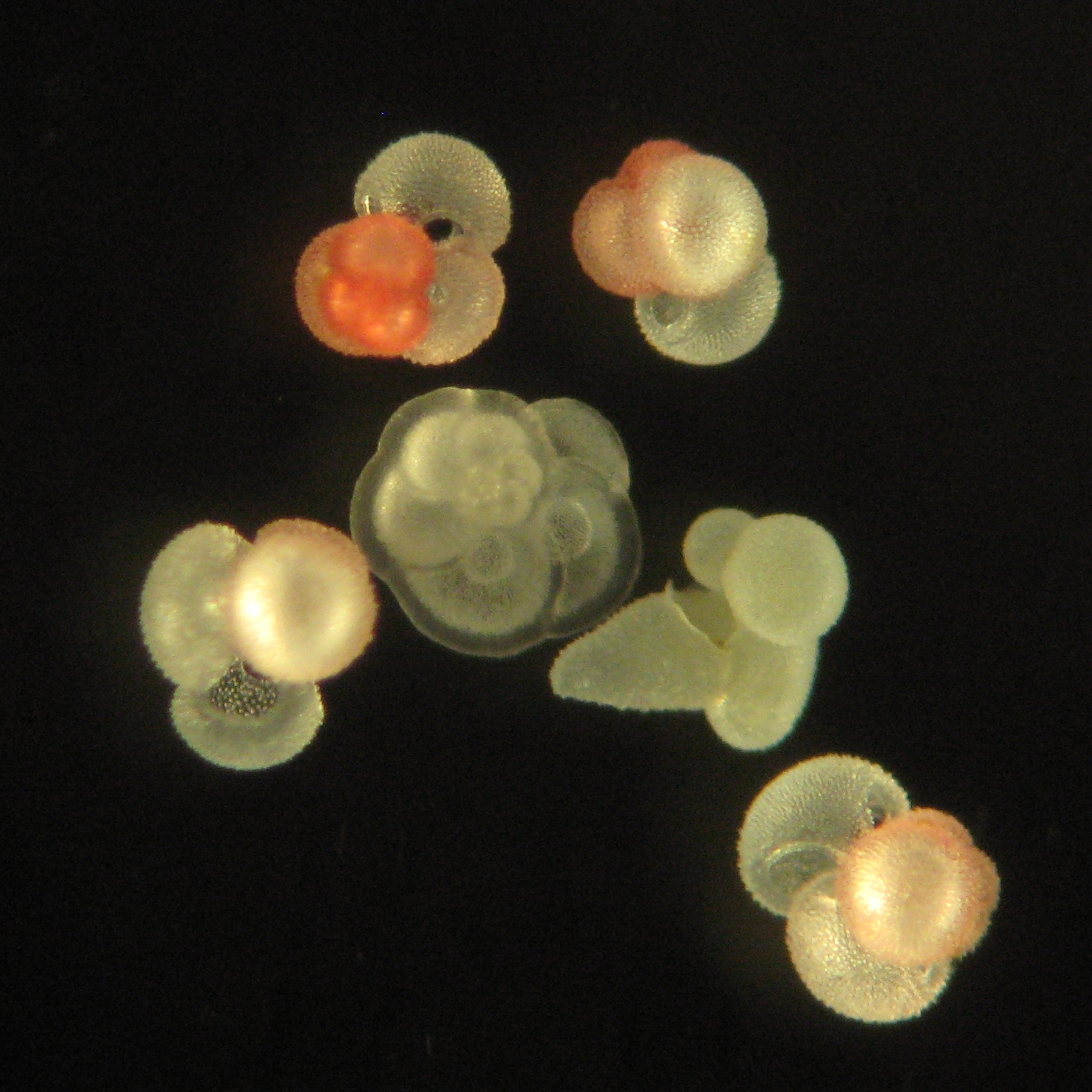 Planktic Foraminifera collected from a sediment-trap moored in the northern Gulf of Mexico, magnified 255x. Top row: Globigerinoides ruber (pink variety) Middle row: Globigerinoides ruber (pink variety), Globorotalia menardii, Globigerina digitata Bottom row: Globigerinoides ruber (pink variety).